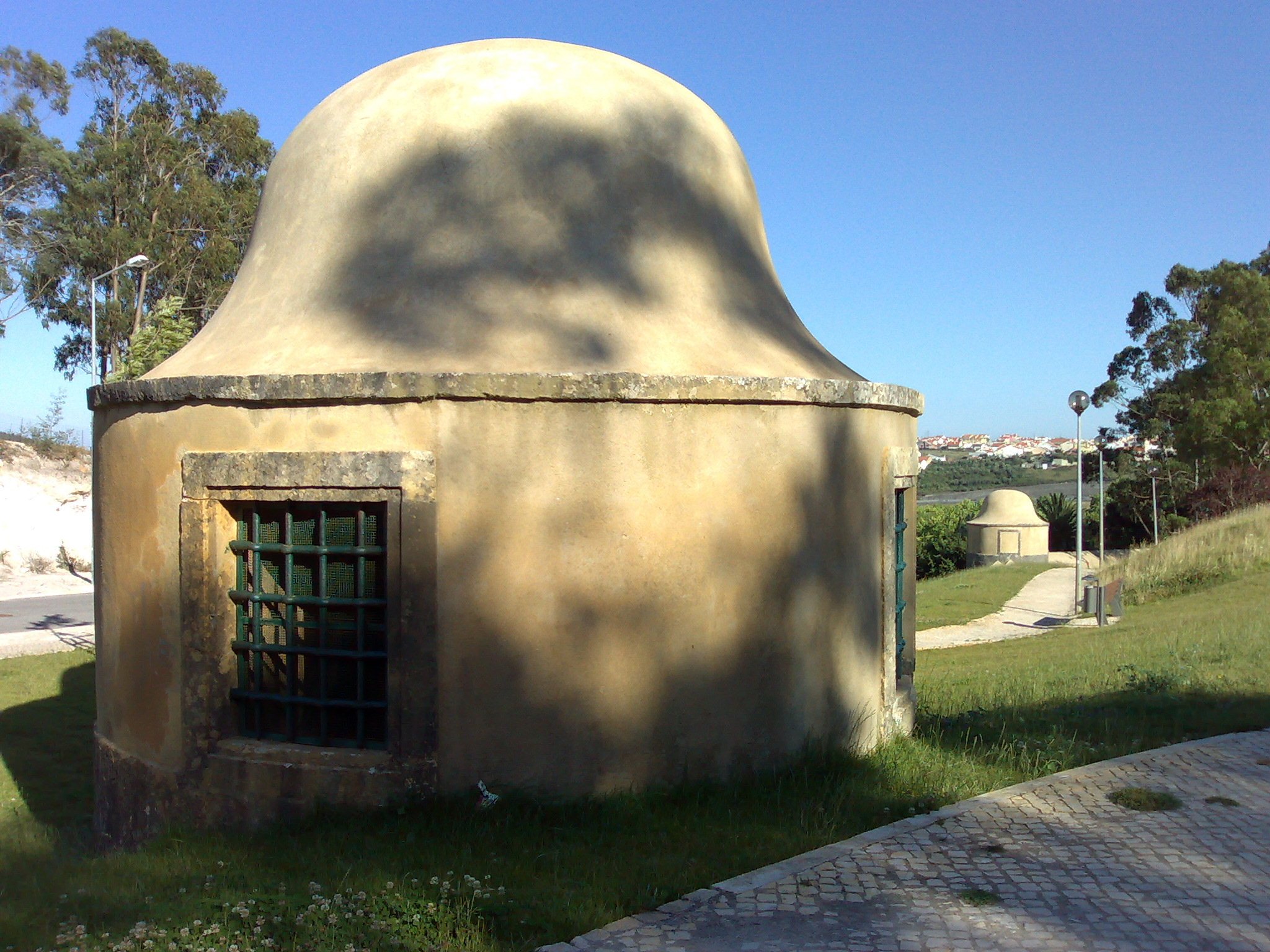 Detail from the "aqueduto das águas livres" at Caneças, Portugal.